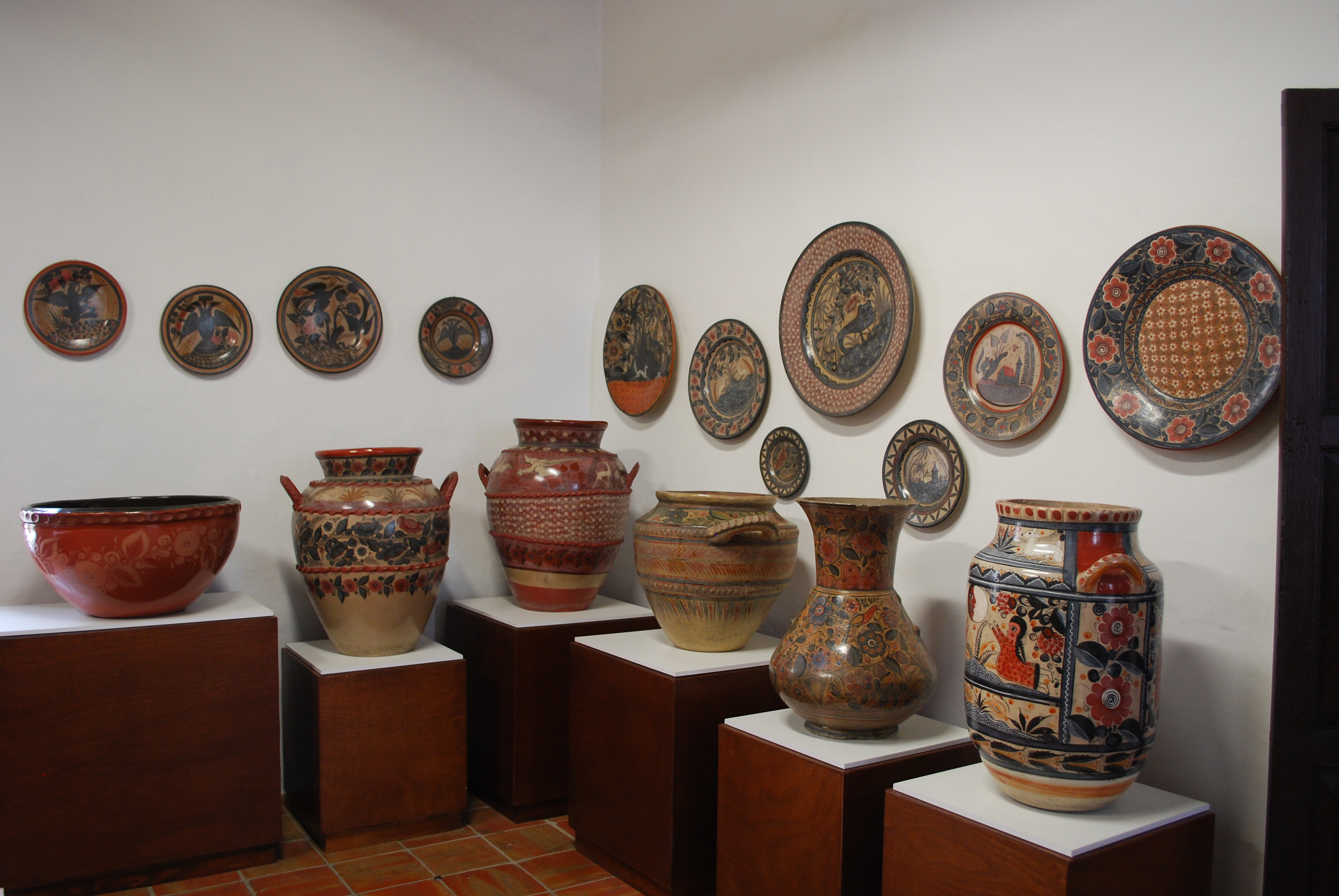 Display area at the Museo Regional de Ceramica in Tlaquepaque, Jalisco, Mexico